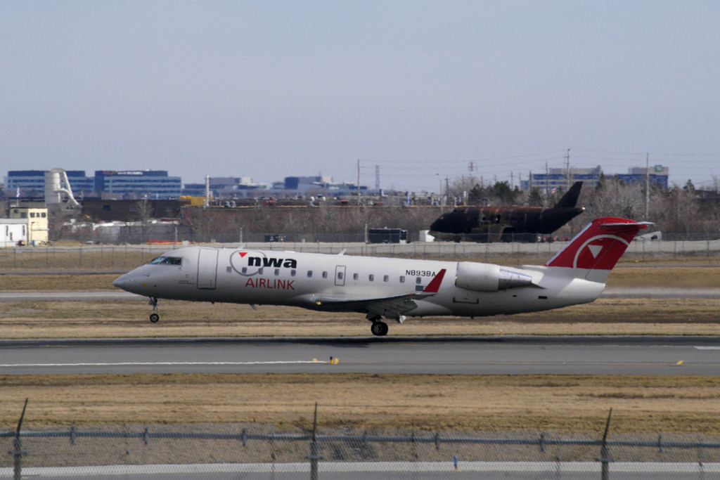 Northwest Airlink NWAirlink CRJ-440 (N8938A) landing at Toronto-Pearson. From FedEx hill.